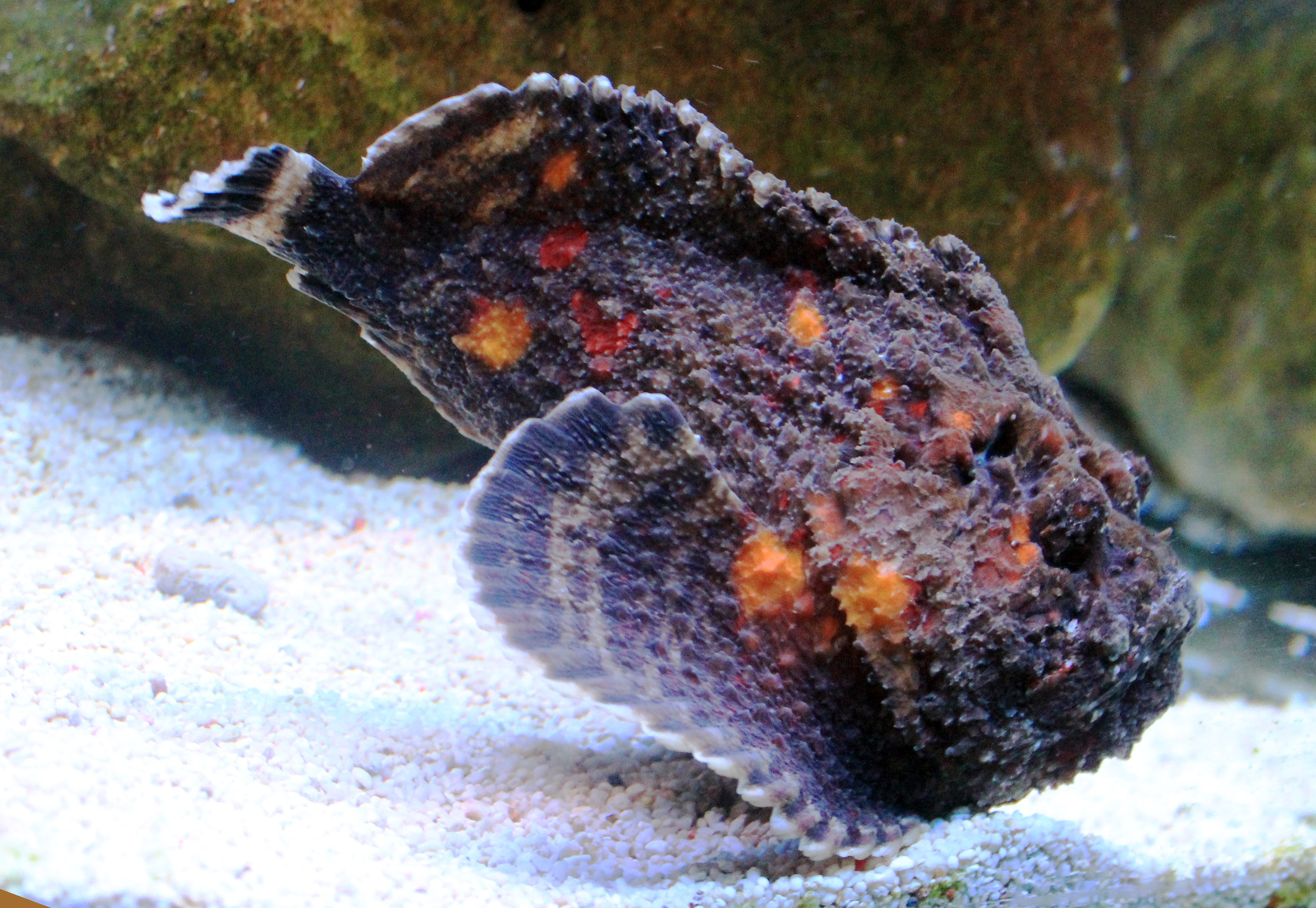 Fish Synanceia verrucosa, (Synanceia verrucosa) in Prague sea aquarium “Sea world”, Czech Republic